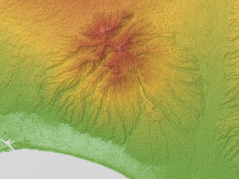 Mount Ashitaka (Ashitaka-yama) is a volcano in Shizuoka Prefecture, Honshu, Japan.